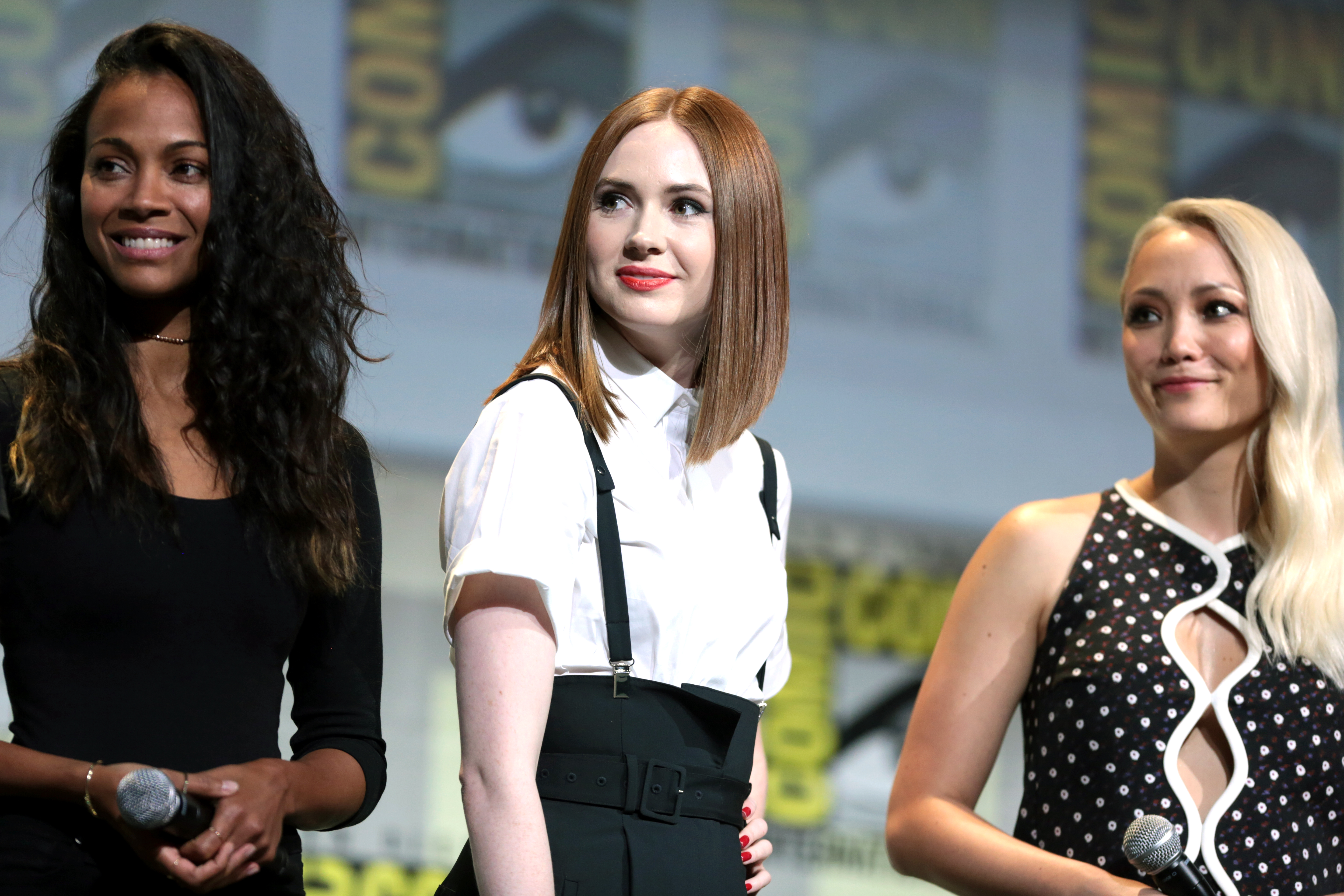 Zoe Saldana, Karen Gillan and Pom Klementieff speaking at the 2016 San Diego Comic Con International, for "Guardians of the Galaxy Vol. 2", at the San Diego Convention Center in San Diego, California.